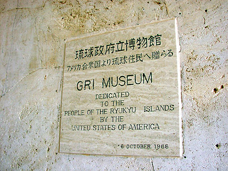 GRI (Government of the Ryukyu Islands) Museum Plate